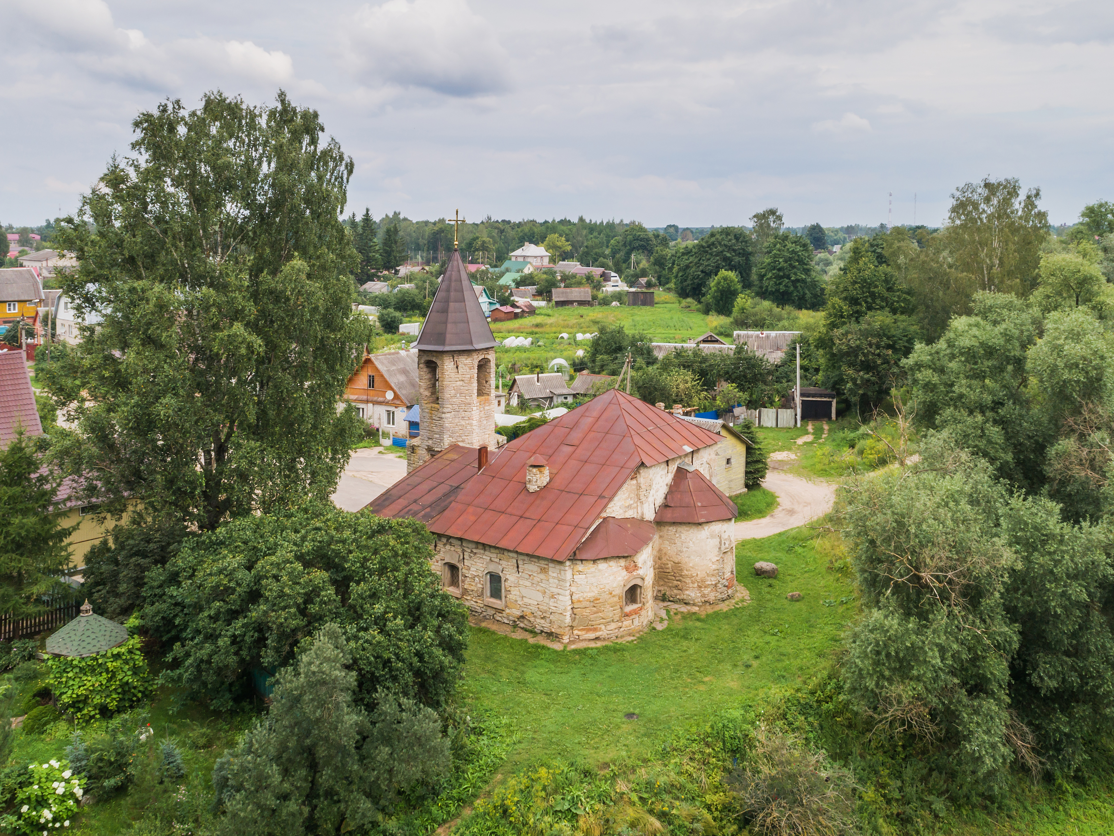 Aerial photo – Our Lady's Nativity Church in Porkhov, Pskov Oblast, Russia.